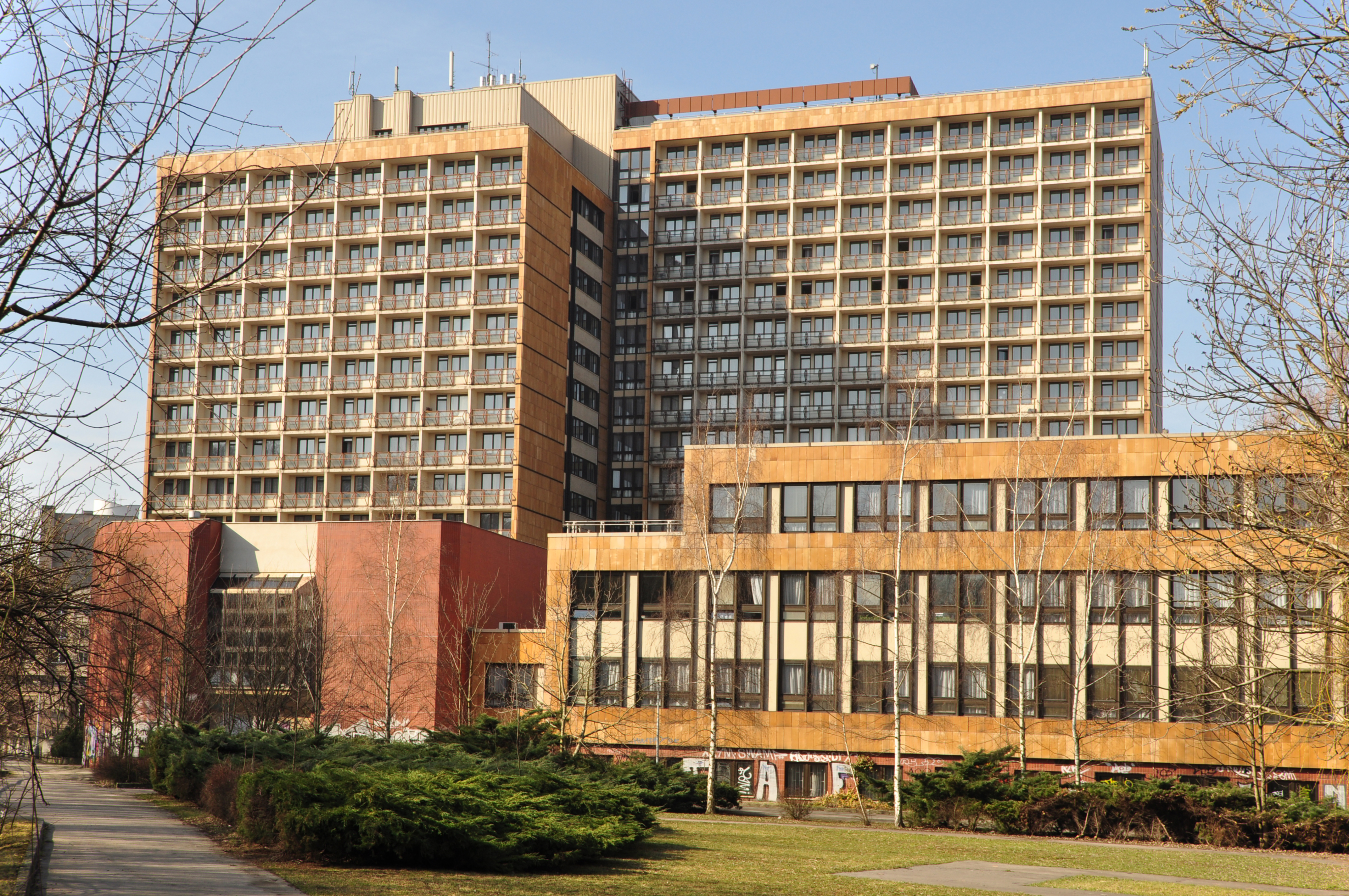 Praha-Veleslavín, José Martího 407/2. Hotel Krystal. Charles University Center of Doctor and Management Studies